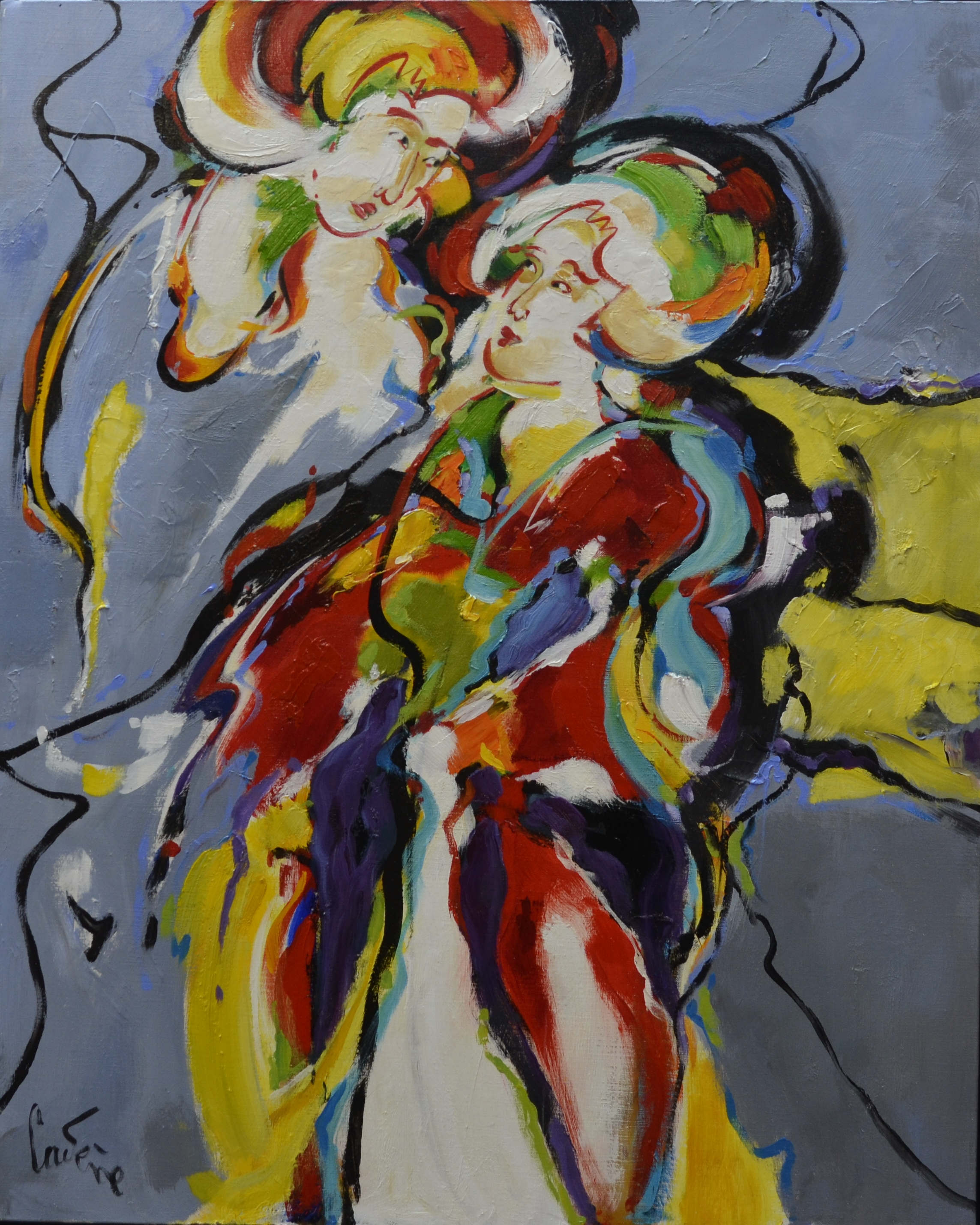 Technique mixte 100 x 81